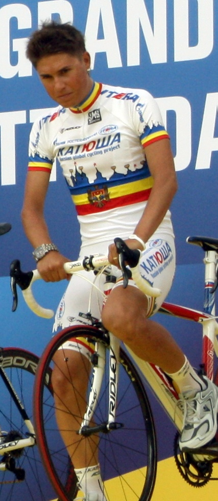 Alexandre Pliuschin at the team presentation of the 2010 Tour de France in Rotterdam